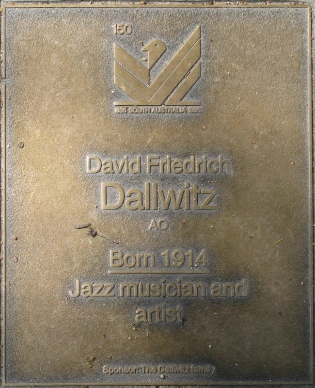 Jubilee 150 Walkway Plaque commemorating David Friedrich Dallwitz.